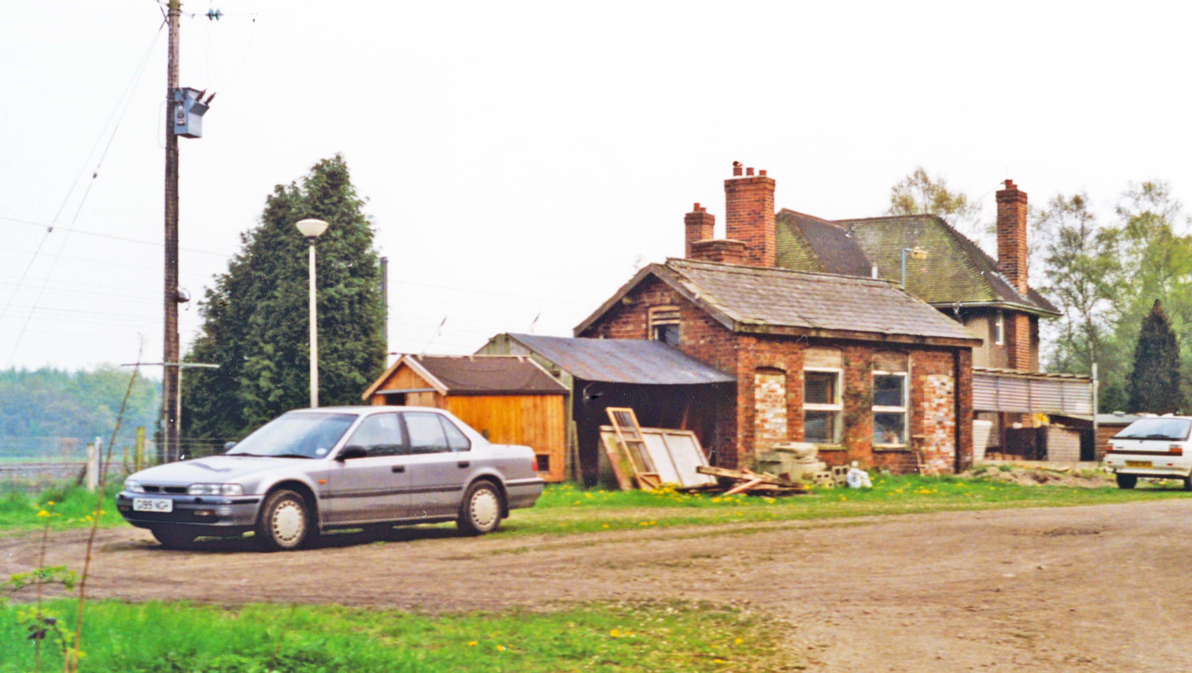 Farm near site of Pilmoor station, 1995